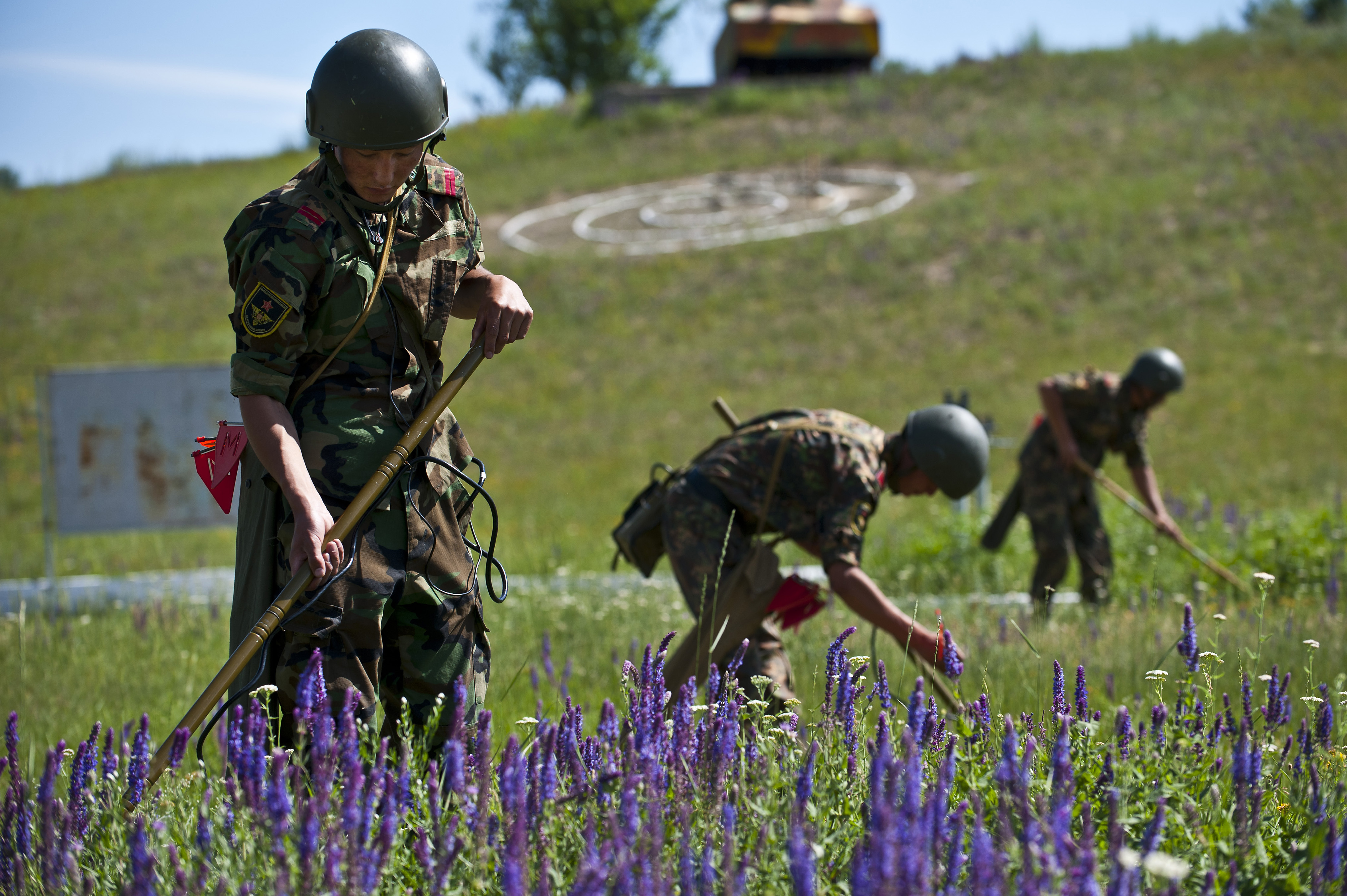 Koi Tash Military Academy, Kyrgyzstan - Exercise Regional Cooperation 2012, a multinational exercise designed to strengthen relationships and promote regional cooperation among participating nations, was held at the Koi Tash Military Academy, Kyrgyzstan, June 18 to 28. The exercise tested participants' emergency management capabilities while working to strengthen interoperability between all involved. Kyrgyz Republic Cpl. Azamat Kemirkov sweeps for landmines during exercise Regional Cooperation 12 at the Koy-Tash Military Academy, Kyrgyzstan, June 22, 2012. Regional Cooperation 12 is a multi-national exercise designed to strengthen relationships and promote regional cooperation among the participating nations while offering coordinated, rapid response scenarios in the event of a disaster affecting multiple countries within the region. (U.S. Air Force photo/Senior Airman Brett Clashman)